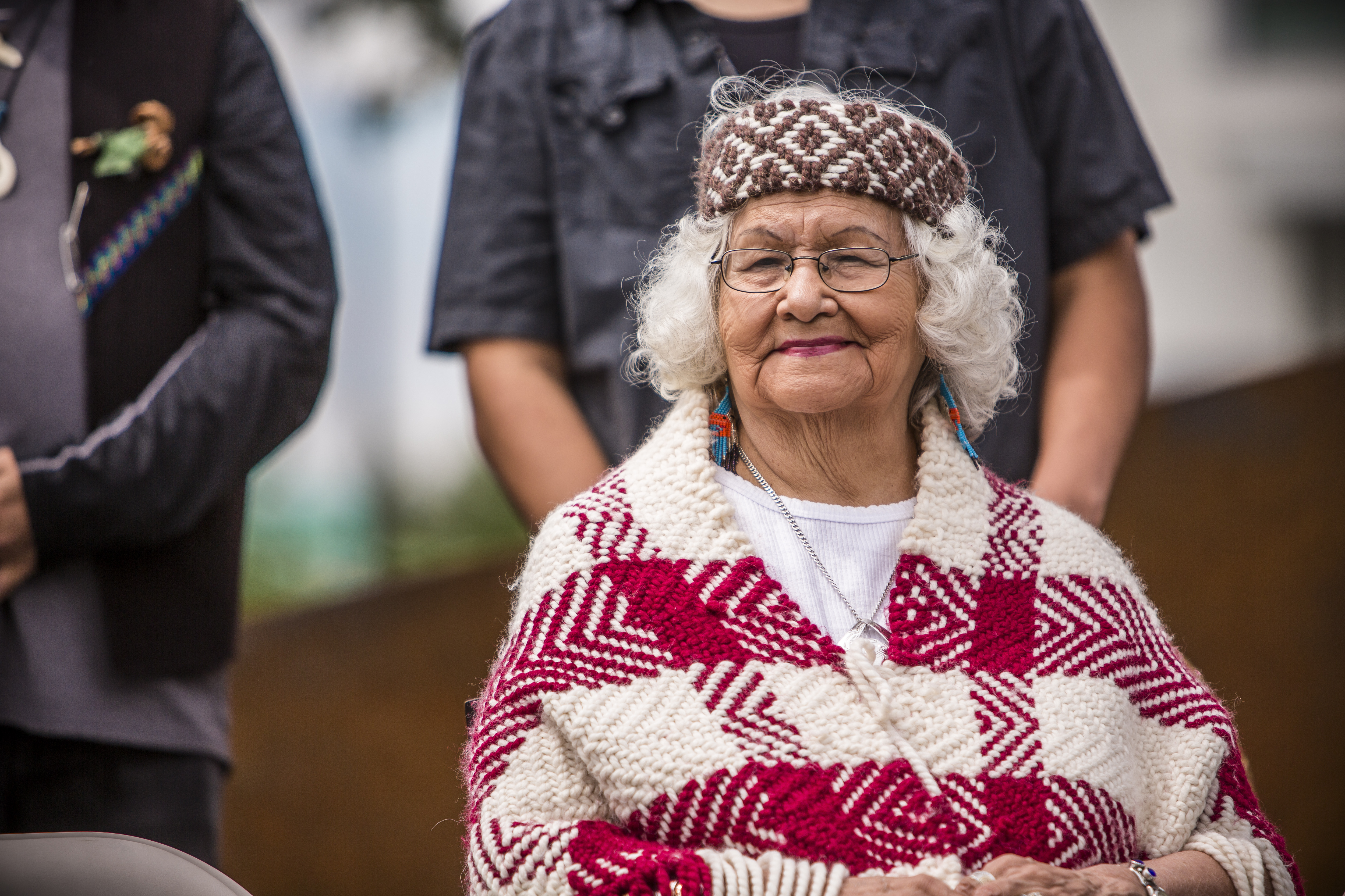 Squamish003Squamish Pole Raising Ceremony - North Vancouver - 002